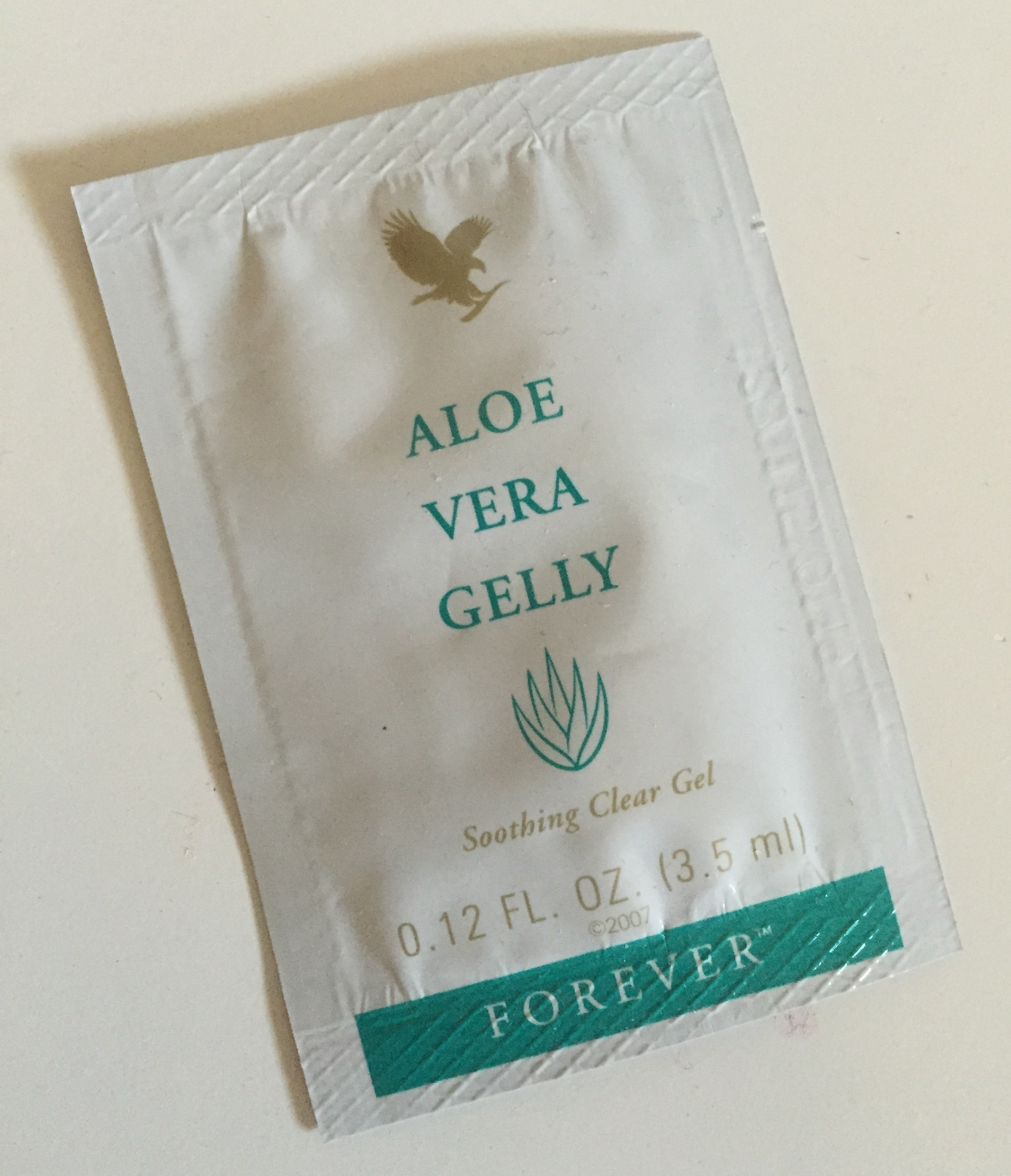 Product from Forever Living